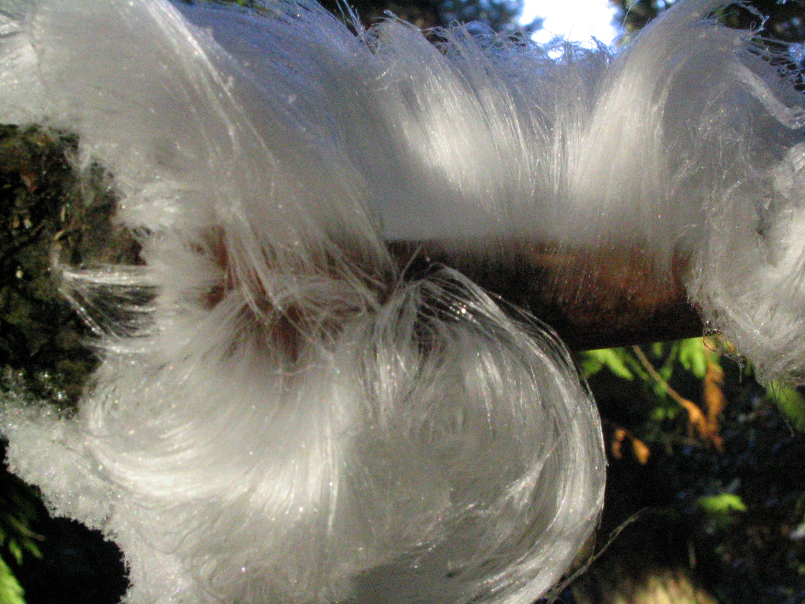 Detailed view of hair ice aka frost beard taken at Mount Maxwell, Salt Spring Island, British Columbia, Canada.